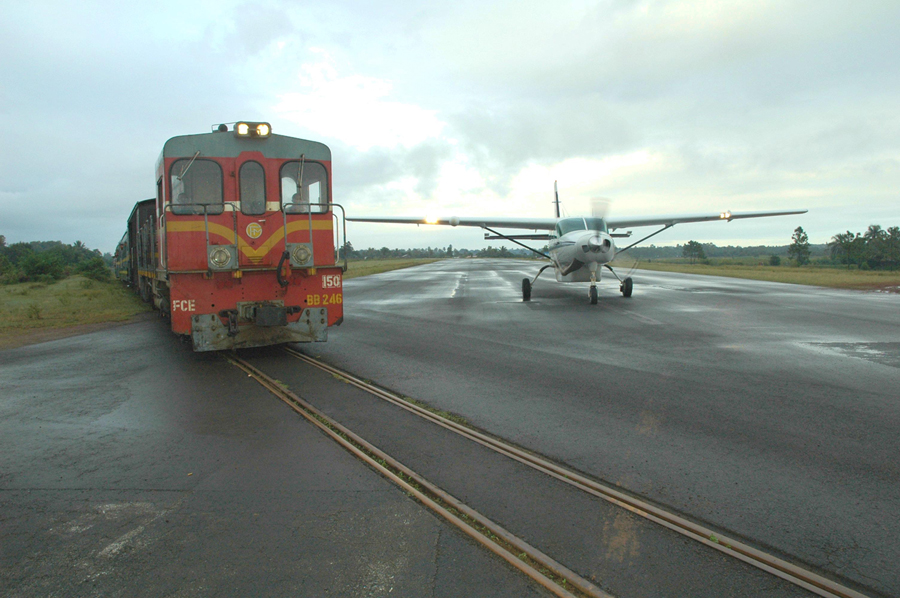 Runway_Railroad-Crossing at Manakara, Madagascar